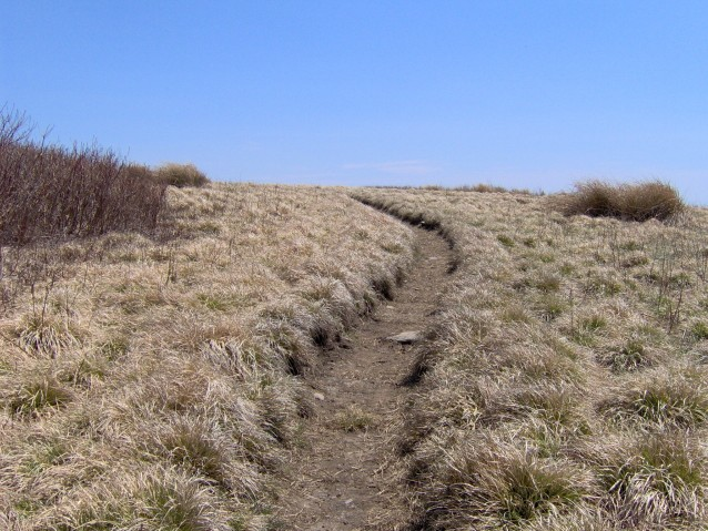 The Gregory Bald Trail approaching the summit of Gregory Bald in the Great Smoky Mountains. The trail roughly parallels the border of Tennessee and North Carolina.